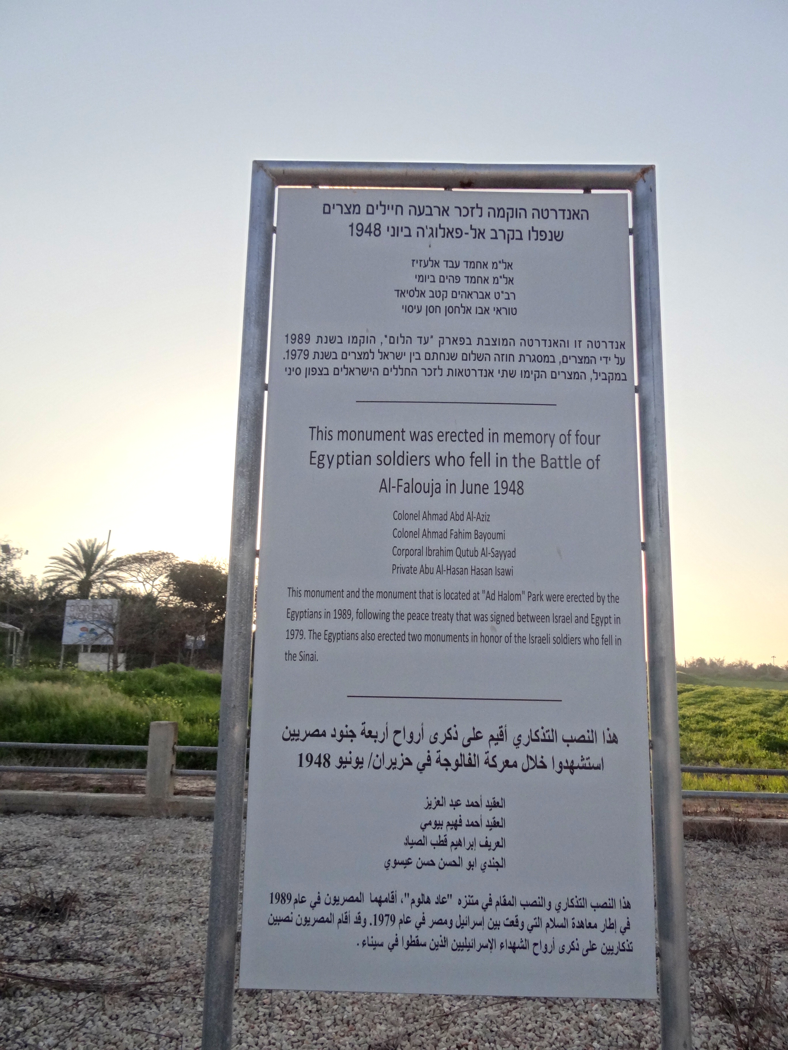 Monument to the memory of four Egyptian soldiers who fell in the battle of Al-Falouja in 1948